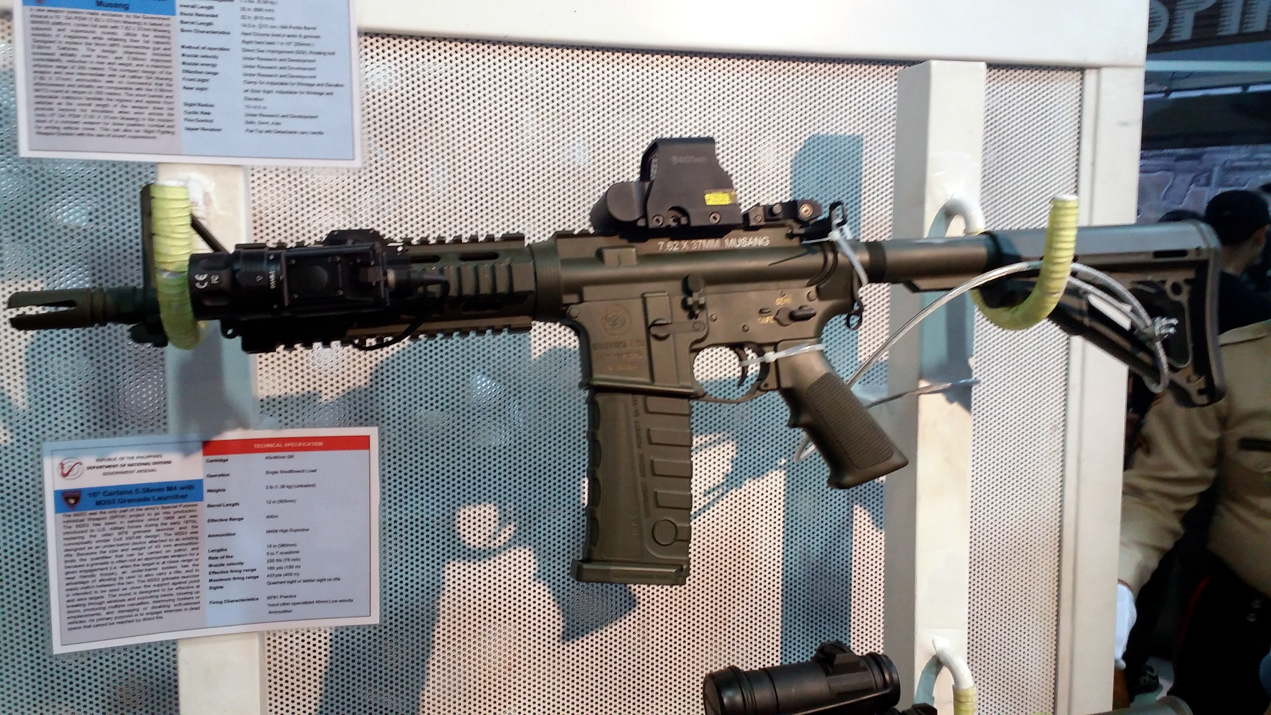 The GA Musang Personal Defense Weapon (PDW) by the Government Arsenal. It features a 10" barrel with a 1:10" twist, and an EOTech Sight. Caliber is 7.62 x 37 mm, an original caliber development by the GA, and weight is around 3.3 kg.